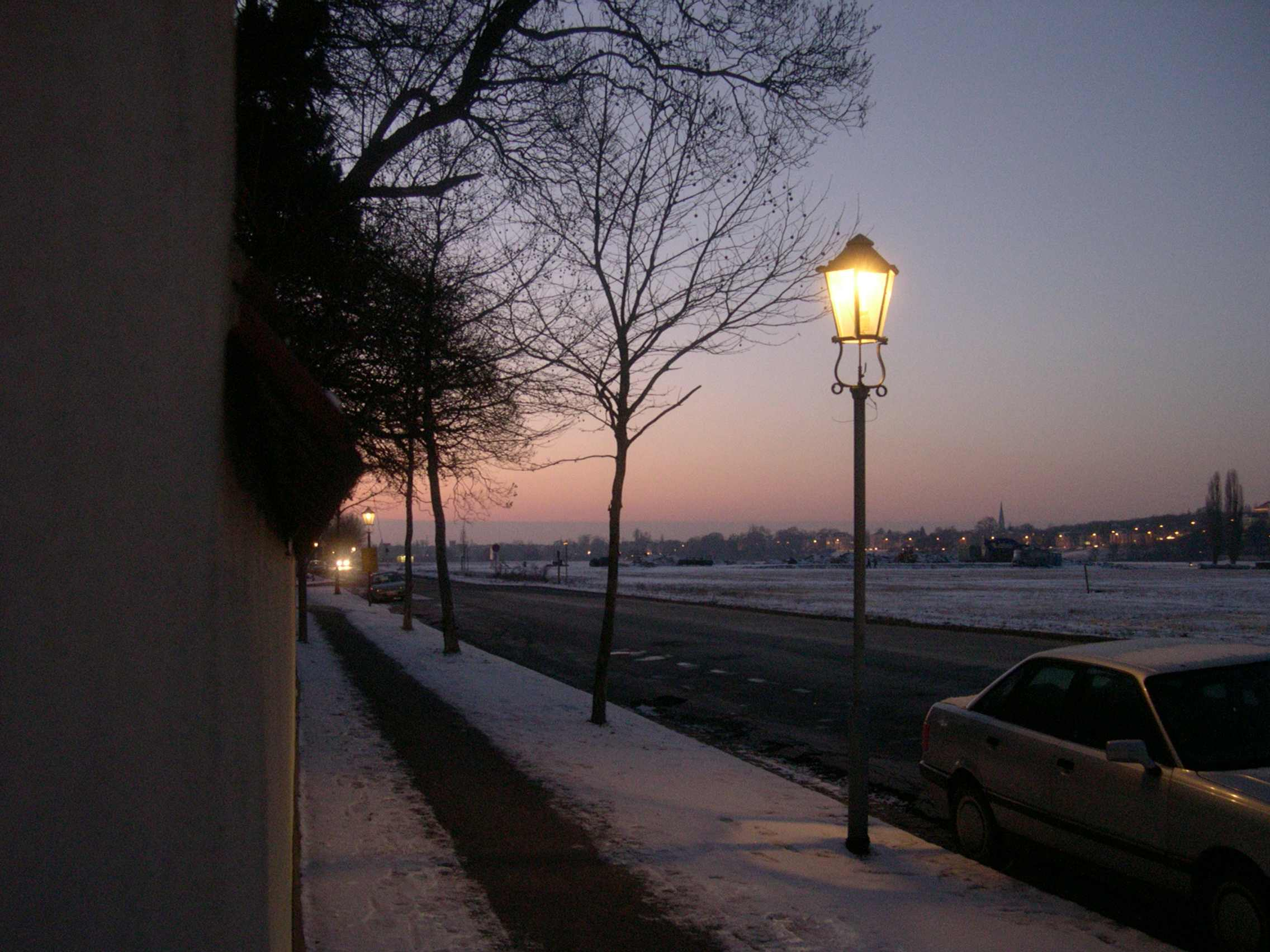 Gas lantern in Dresden, the gas lantern was replaced by modern light in 2004 during reconstruction of the street